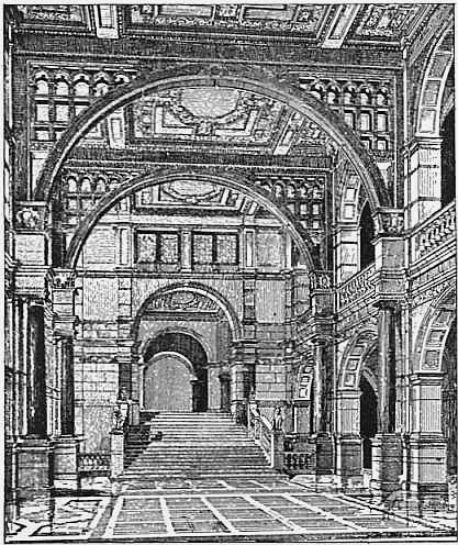 Staircase, Imperial Institute. (Collcutt).Illustration from 1911 Encyclopædia Britannica, article Architecture.